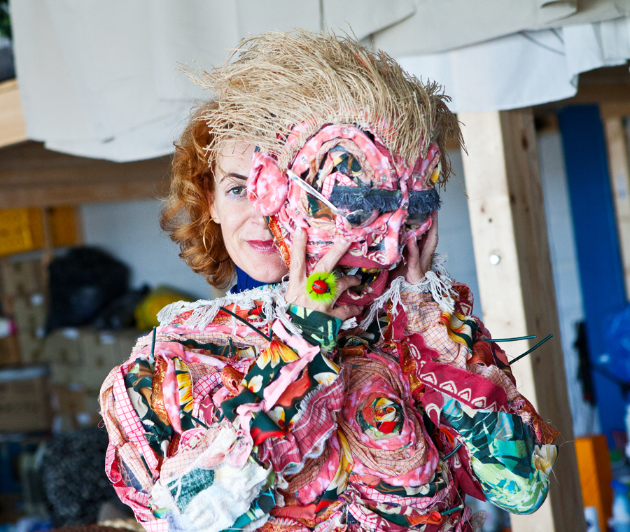 Elke Backes at Jasper de Beijer